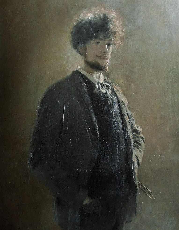 Self portrait of Evert Larock, full version